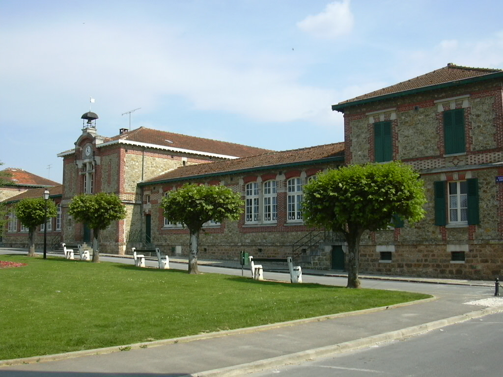 Primary School Docteur-Farny in Rebais, Seine-et-Marne, France